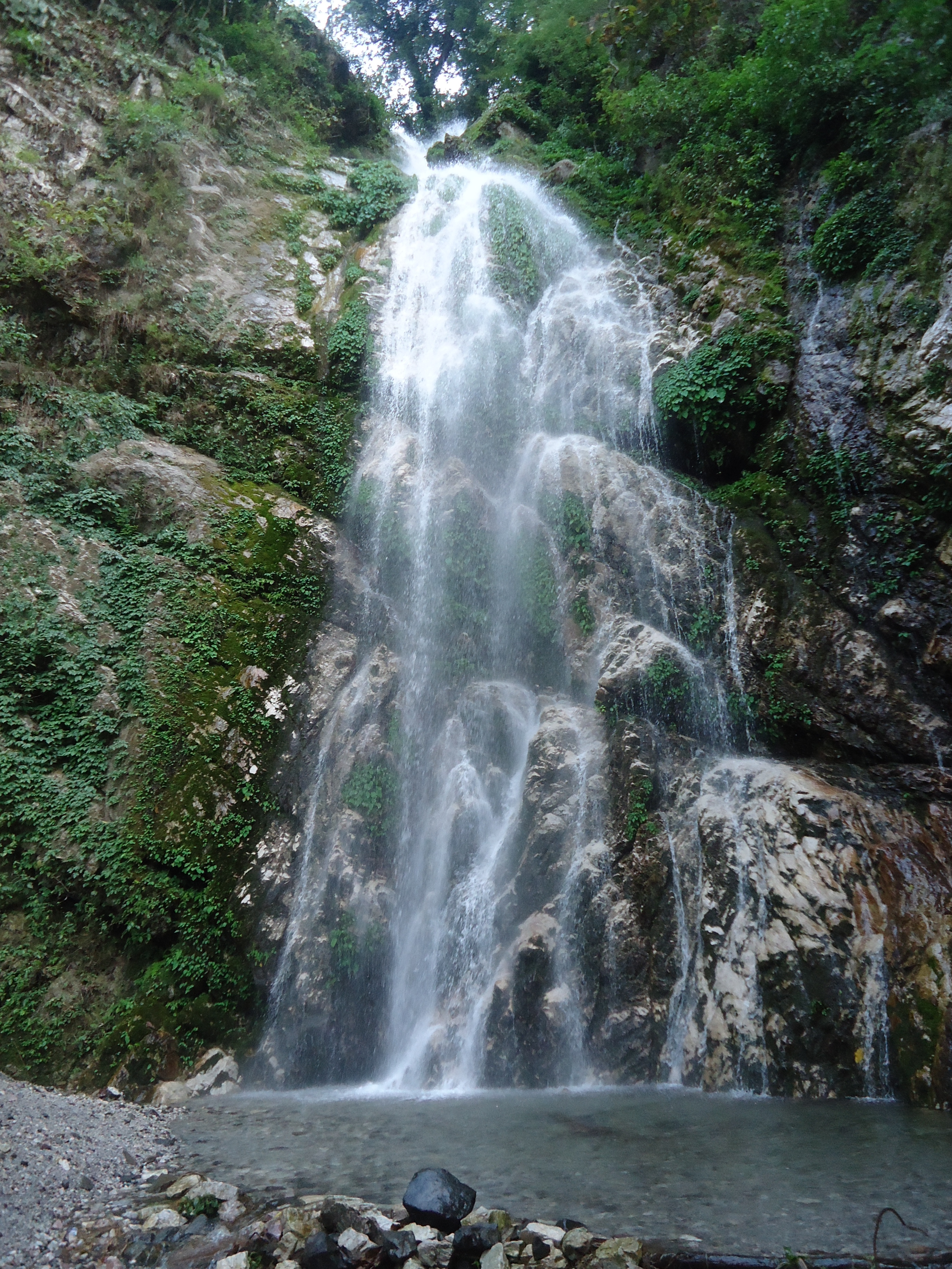 Namaste waterfall, named after a greeting word spoken in Nepali joining two hands, lies in Dhankuta District of Nepal. It attracts internal tourists, mostly from cities like Dharan and Biratnagar, in summer. When the mercury upsurges above 30 degree in the plains, the flow of tourists in this waterfall is unmanageable. Left abandoned few years ago, the waterfall area is currently managed by some encouraged youths of Dharan.